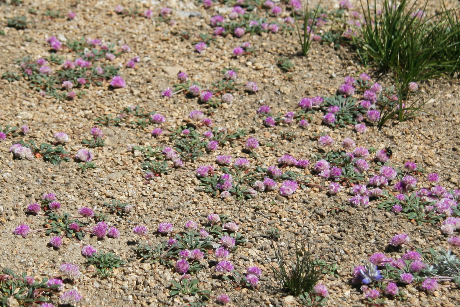 Pussypaws (Cistanthe umbellata), alpine garden at 9400ft. South end of Emigrant Meadow Lake, Emigrant Wilderness, Sierra Nevada, California.